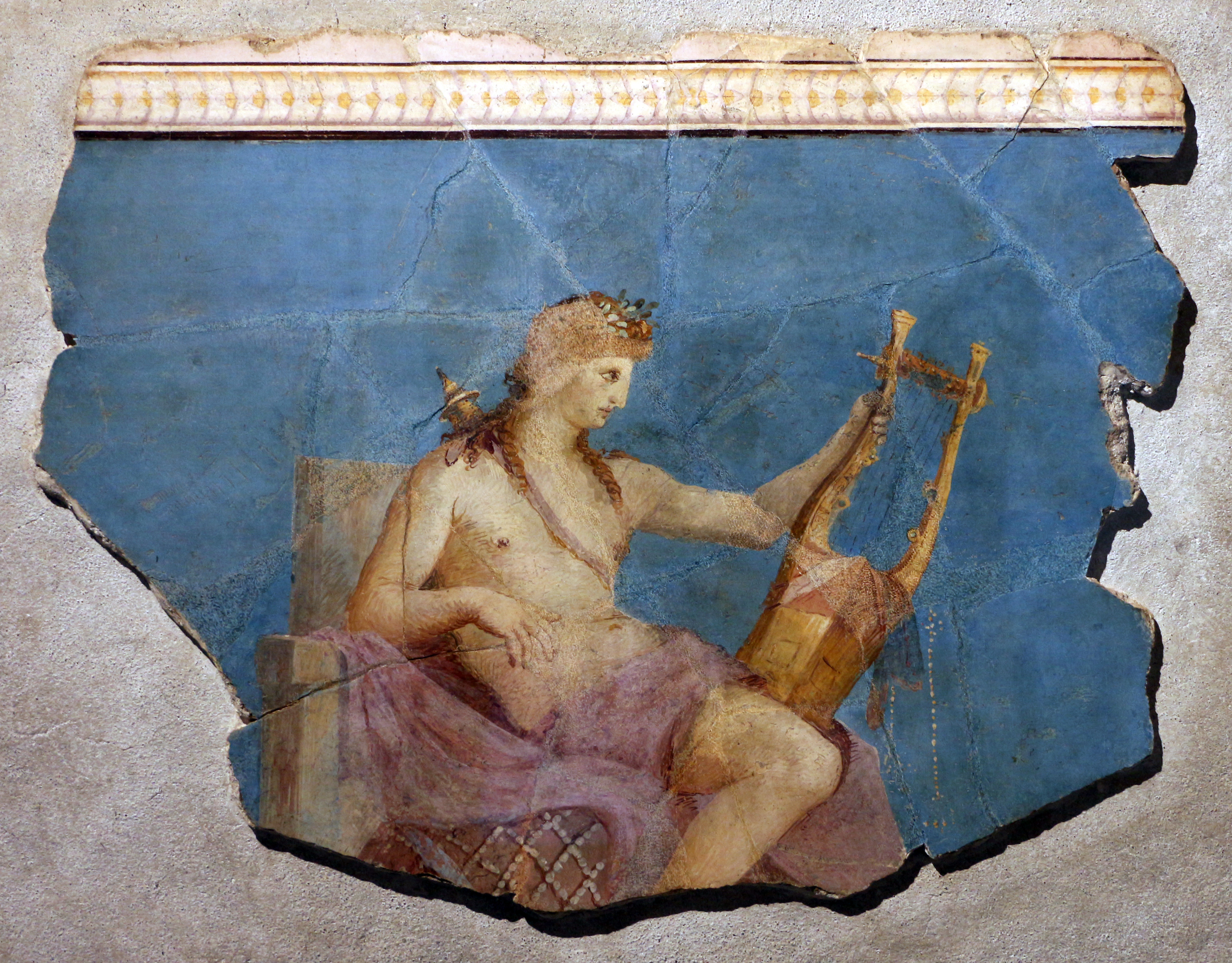 Antiquarium del Palatino (Rome)